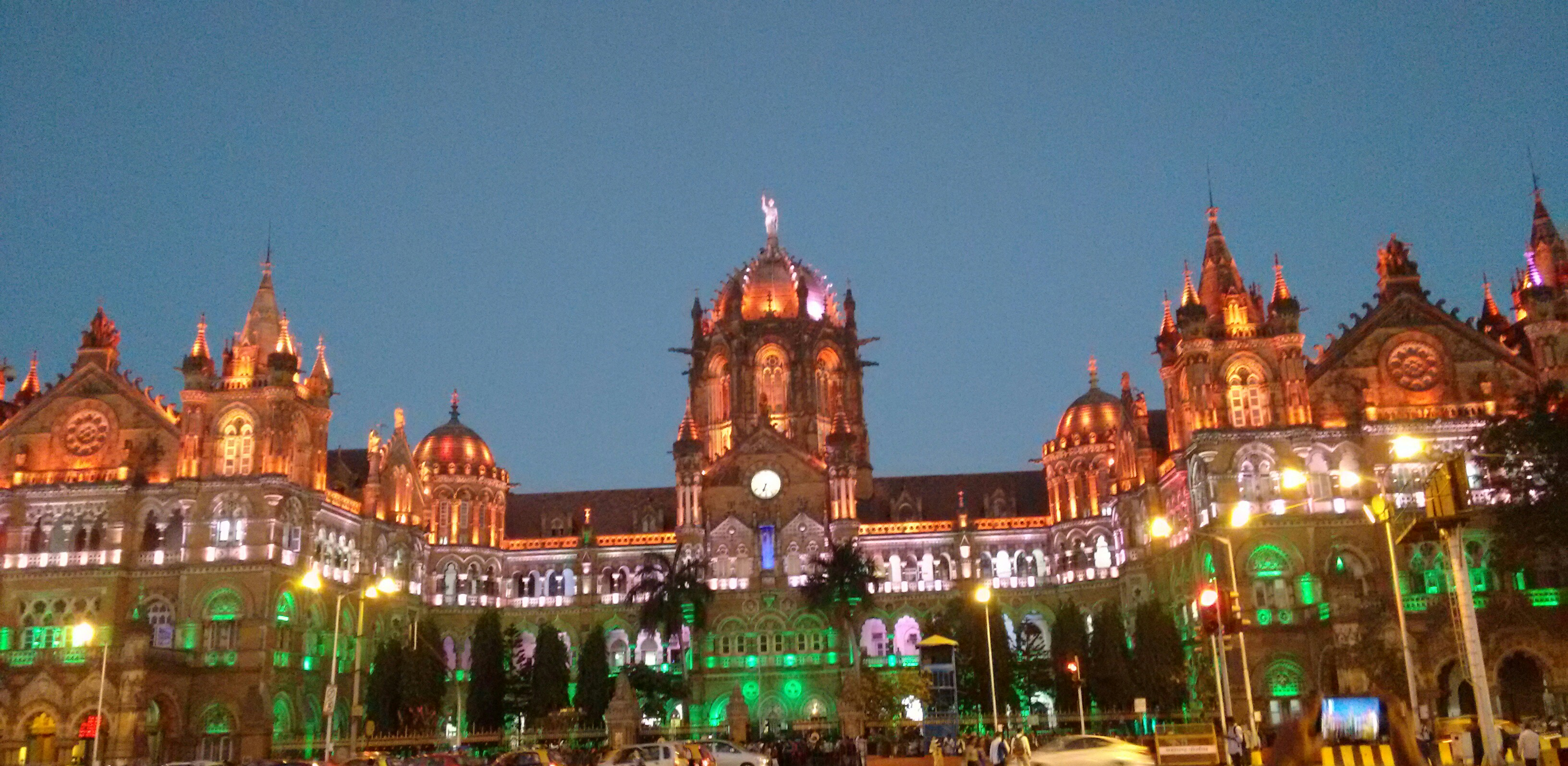 IT IS formerly known as victoria terminus. This monument is declared as unesco world heritage site in 2004.